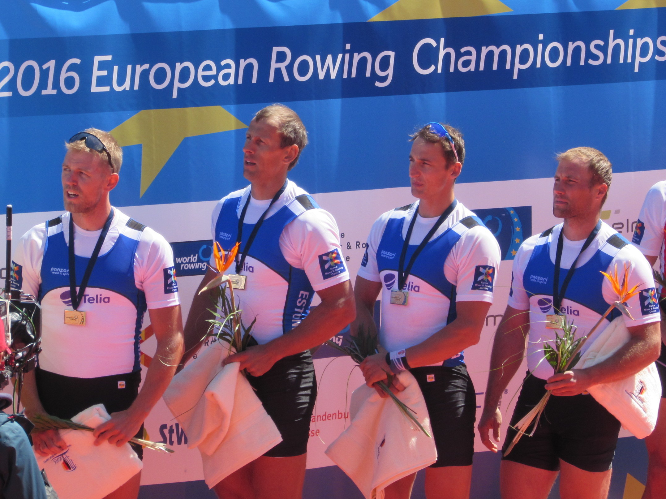 From left: Kaspar Taimsoo, Tõnu Endrekson, Allar Raja, Andrei Jämsä at 2016 European Rowing Championships (gold medal).